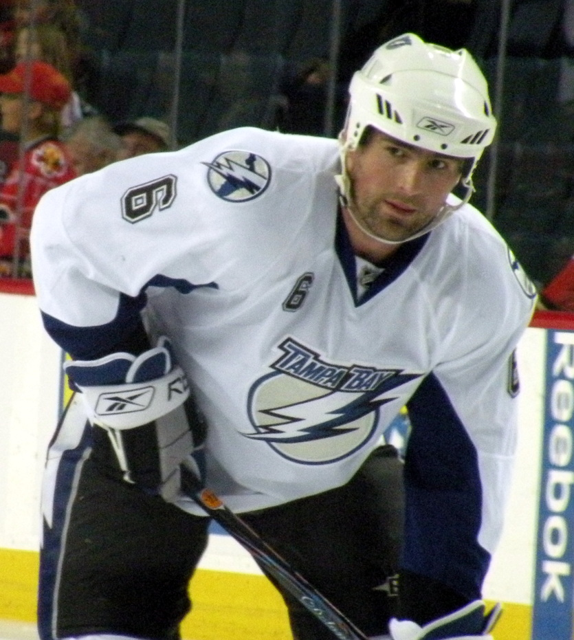 Joseph Melichar of the Tampa Bay Lightning warming up prior to a game against the Calgary Flames in Calgary.